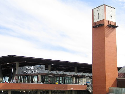 Extension of the Atocha train station (Madrid, Spain). Projected by architect Rafael Moneo in 1985 and built between 1990 and 1992.